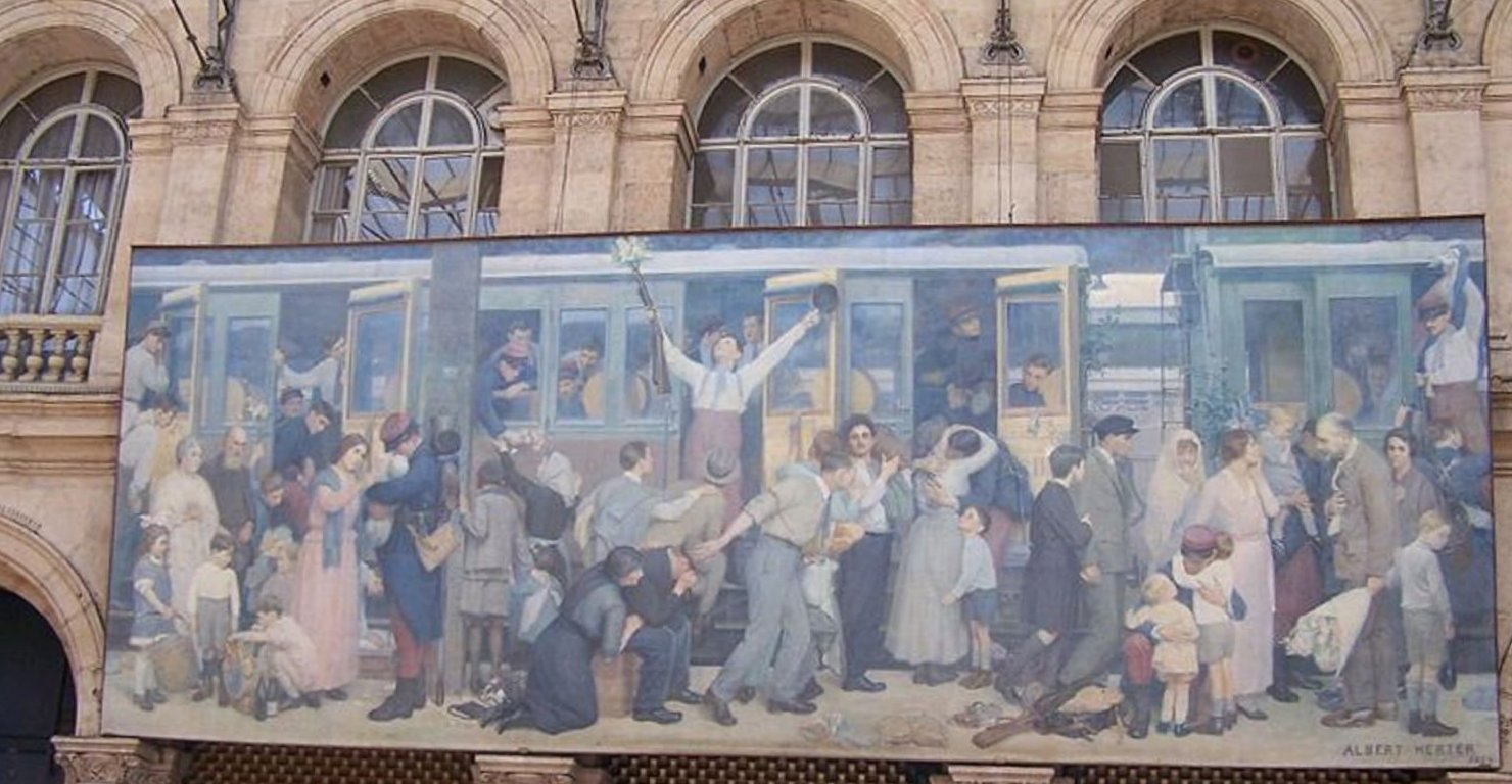 photo of the placement of the mural Le Départ des poilus by Albert Herter